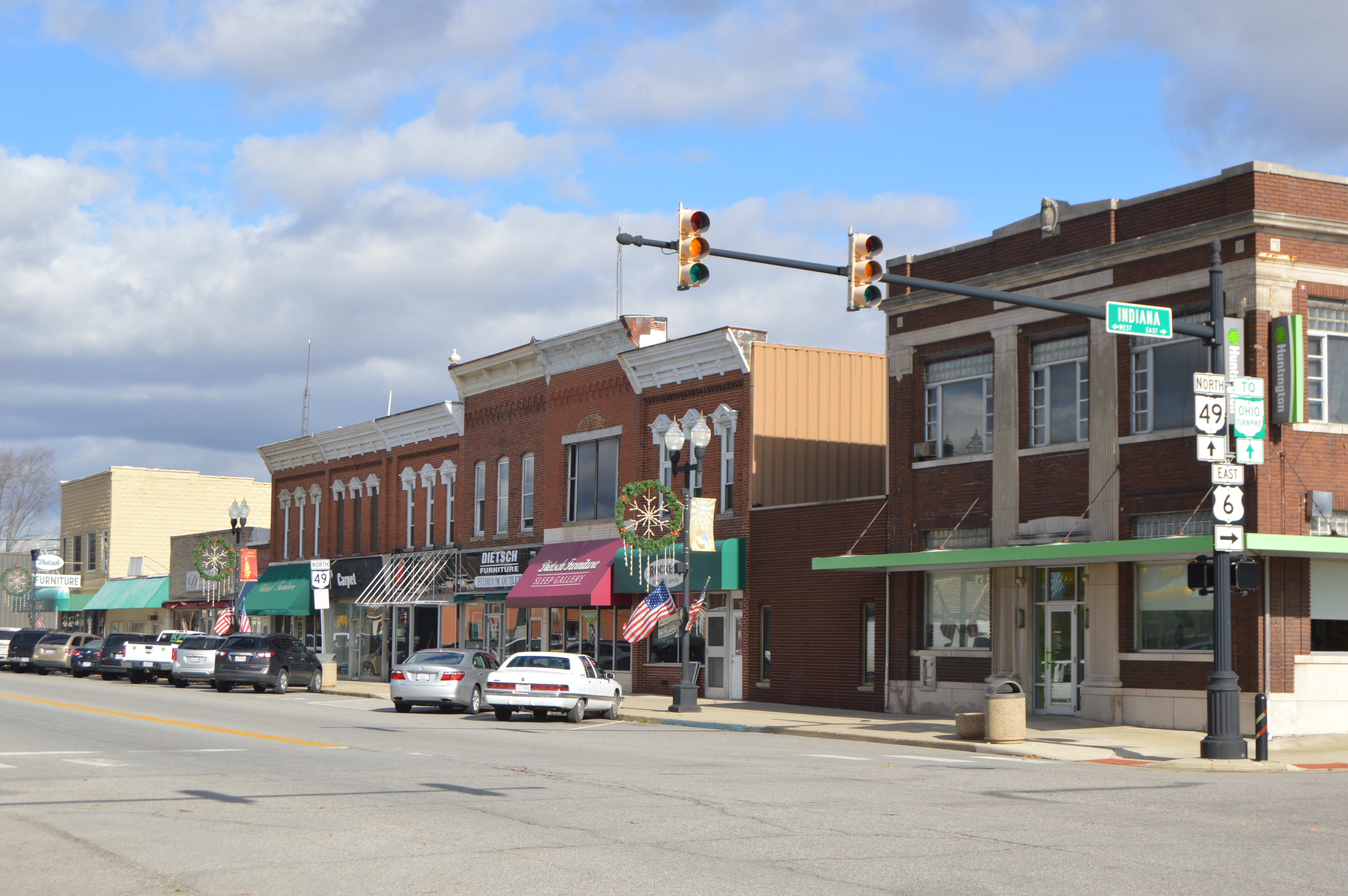 Buildings on the eastern side of Michigan Avenue (State Route 49) at its intersection with Indiana Street (U.S. Route 6) in Edgerton, Ohio, United States.